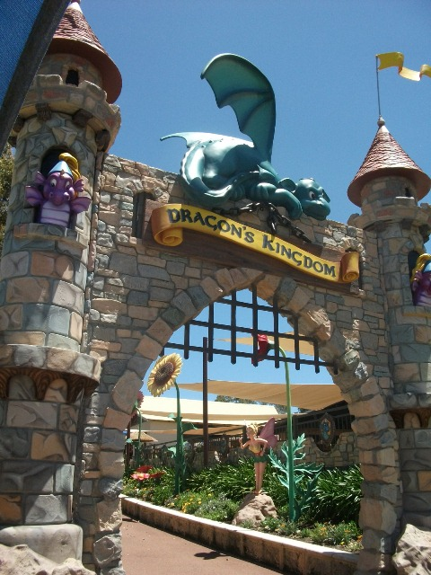 At Adventure World, Perth